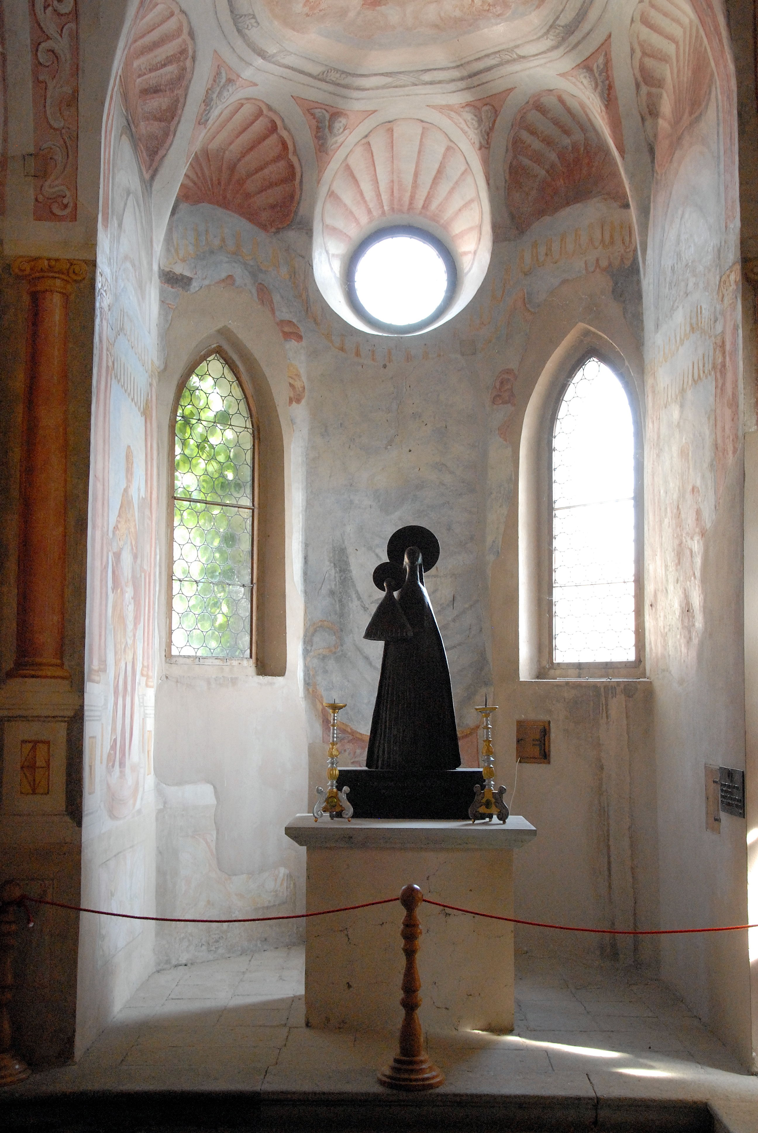 Chapel`s chancel in the upper inner ward of the Bled castle, Bled, Slovenia